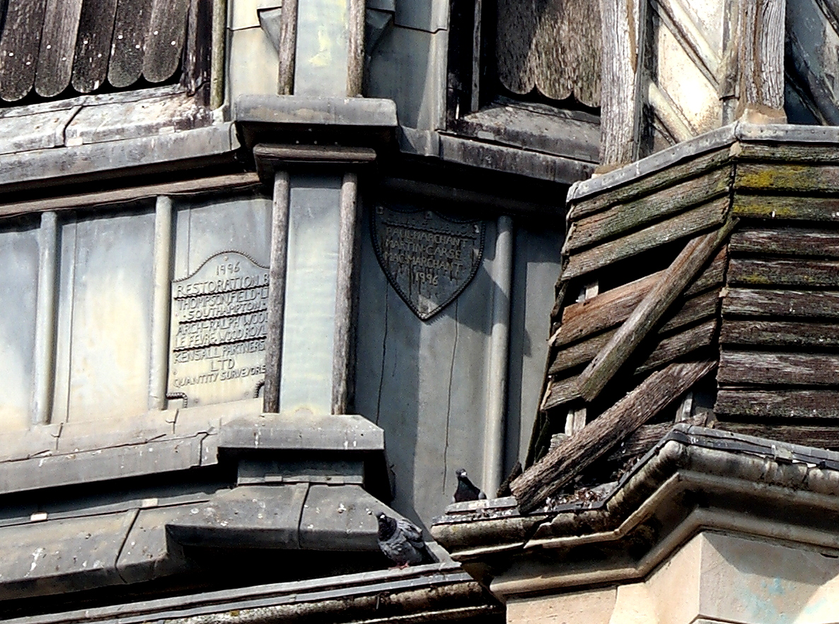 Exterior of the belfry of St Paul's parish church, West Street, Brighton, Sussex, showing structural deterioration and 1996 restoration plaques